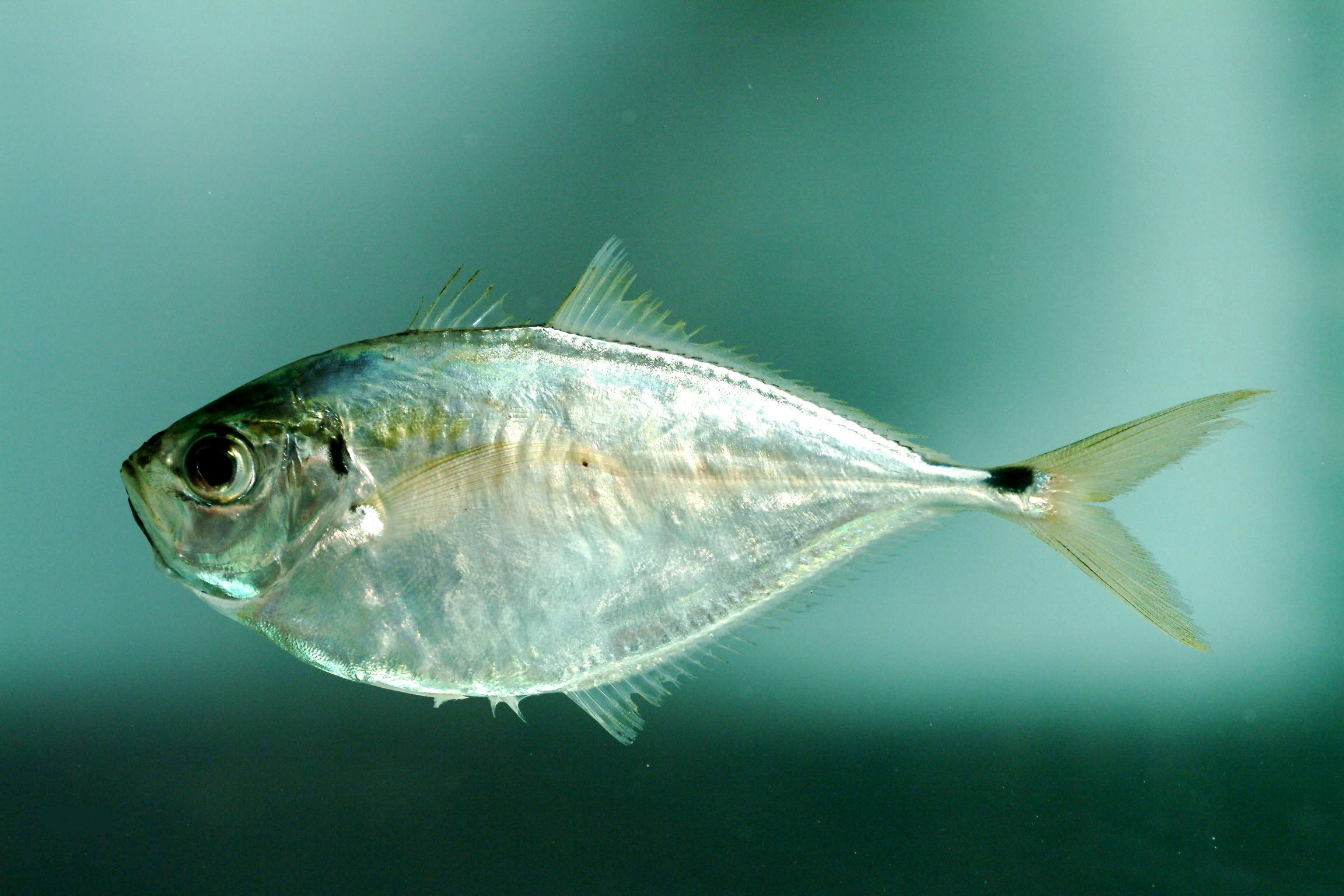 Chloroscombrus chrysurus from the Gulf of Mexico